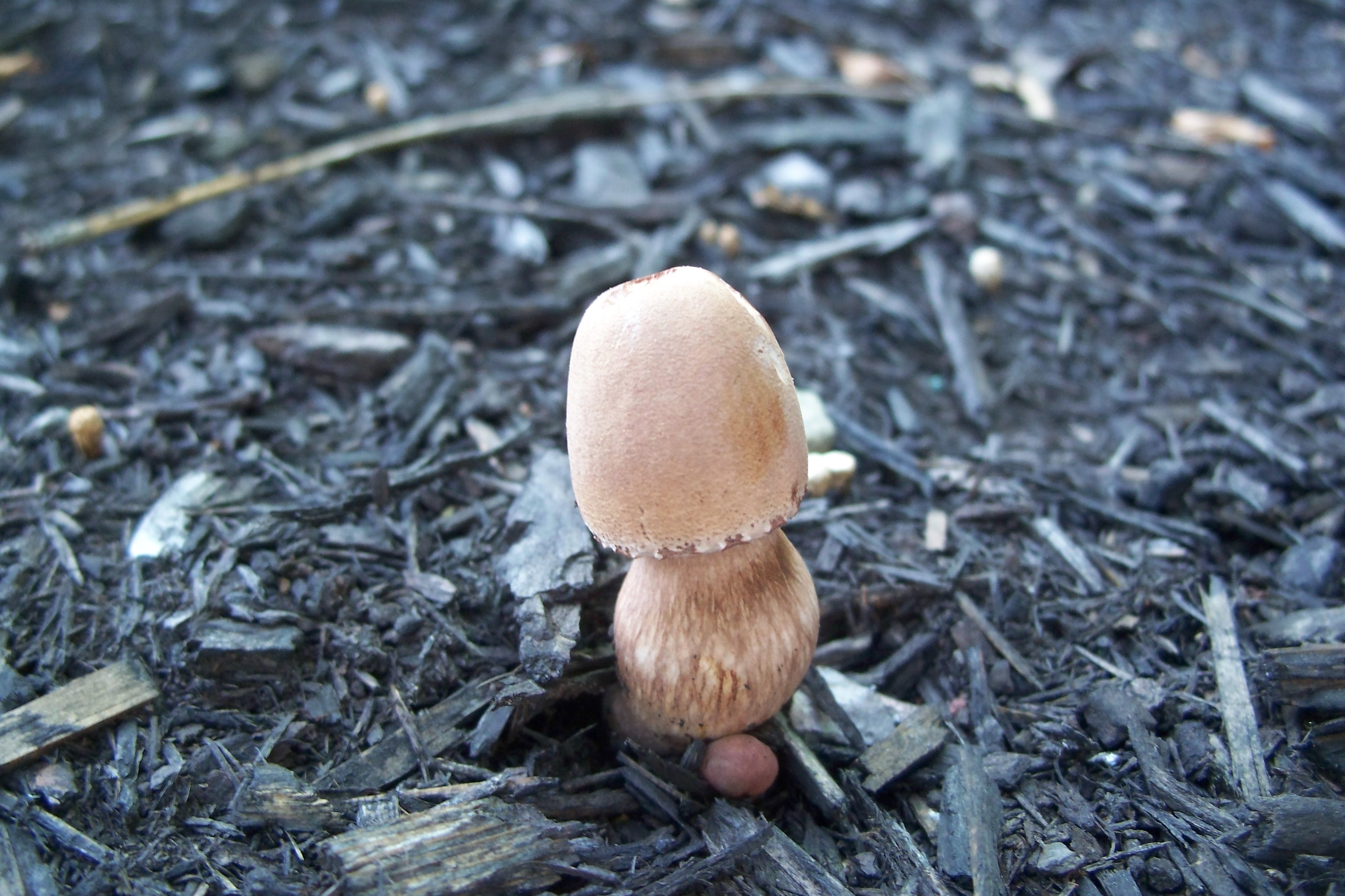 Leucoagaricus americanus (Peck) Vellinga Location: South of Summerlee Rd., Oak Hill, Fayette Co., West Virginia, USA Observation Notes: This started cumming up in clumps and singularly in an area of wood mulch. The flesh bruises red slowly over 30 min the Base is swollen, Aparently use to be called lepiota americana until recent DNA studies now places this in the genus Leucoagaricus. So i have read.[admin – Sat Aug 14 02:05:27 0000 2010]: Changed location name from ‘S. Summerlee Rd Oak Hill Fayette Co. West Virginia’ to ‘South of Summerlee Rd., Oak Hill, Fayette Co., West Virginia, USA’ For more information about this, see the observation page at Mushroom Observer.